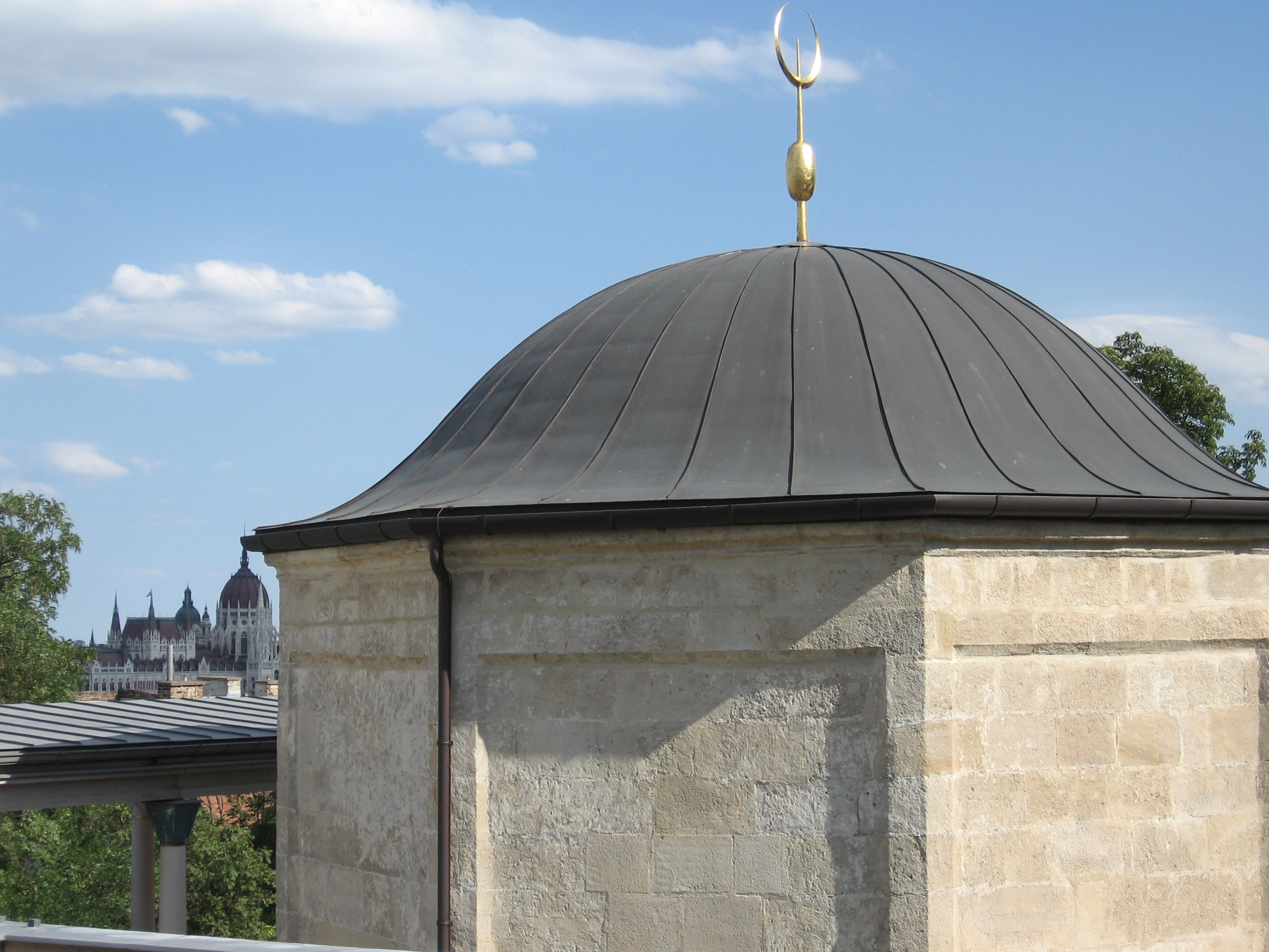 photo